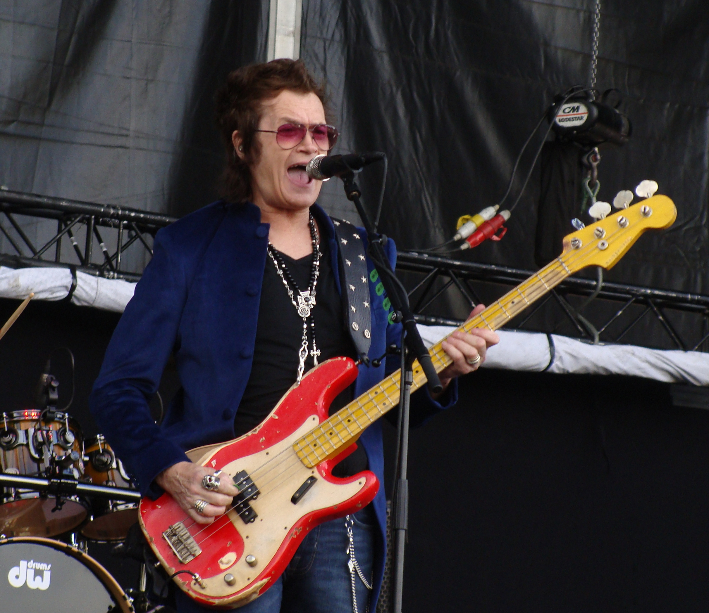 The former Deep Purple bassist Glenn Hughes with his new band Black Country Communion at Azkena rock festival, Vitoria-Gasteiz, Spain.